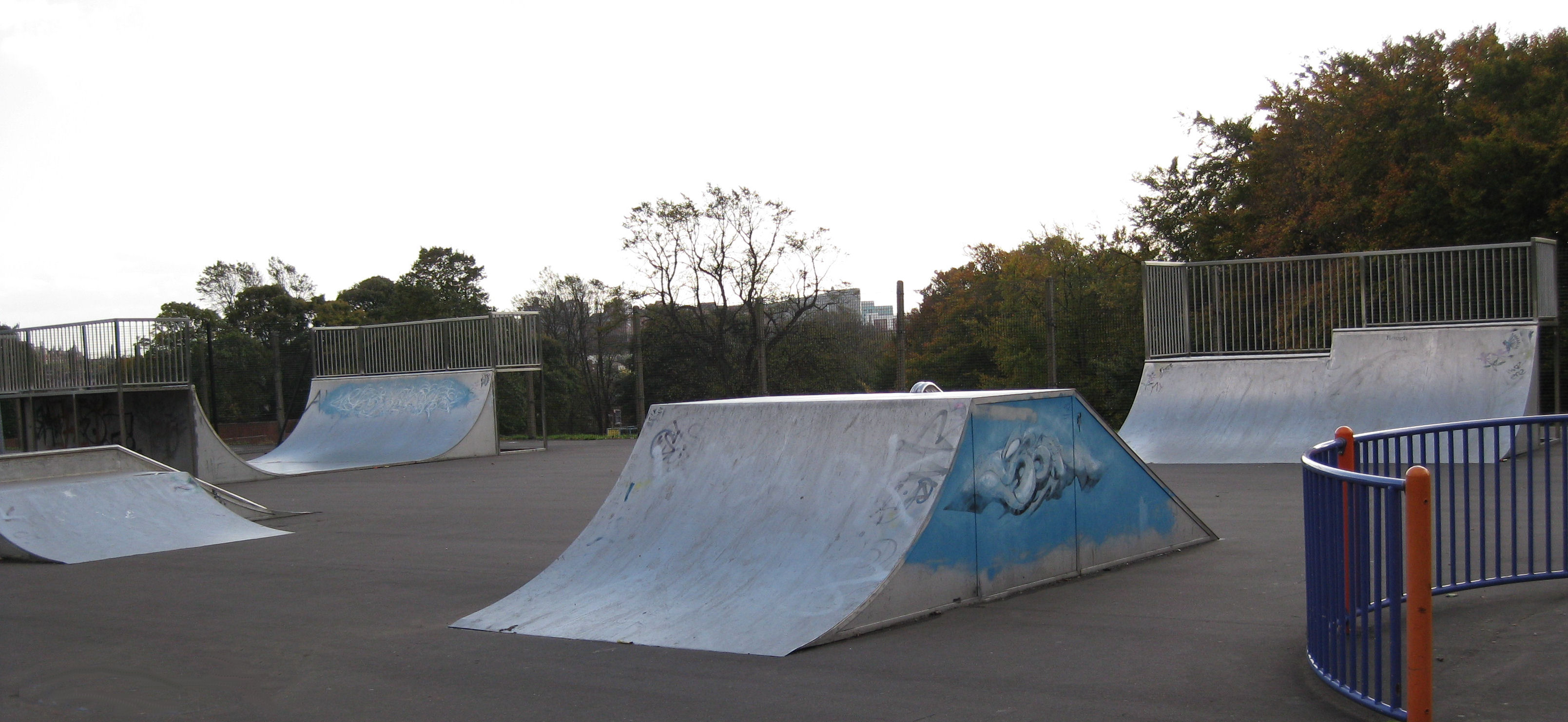 Public skate park in Potternewton Park, Leeds